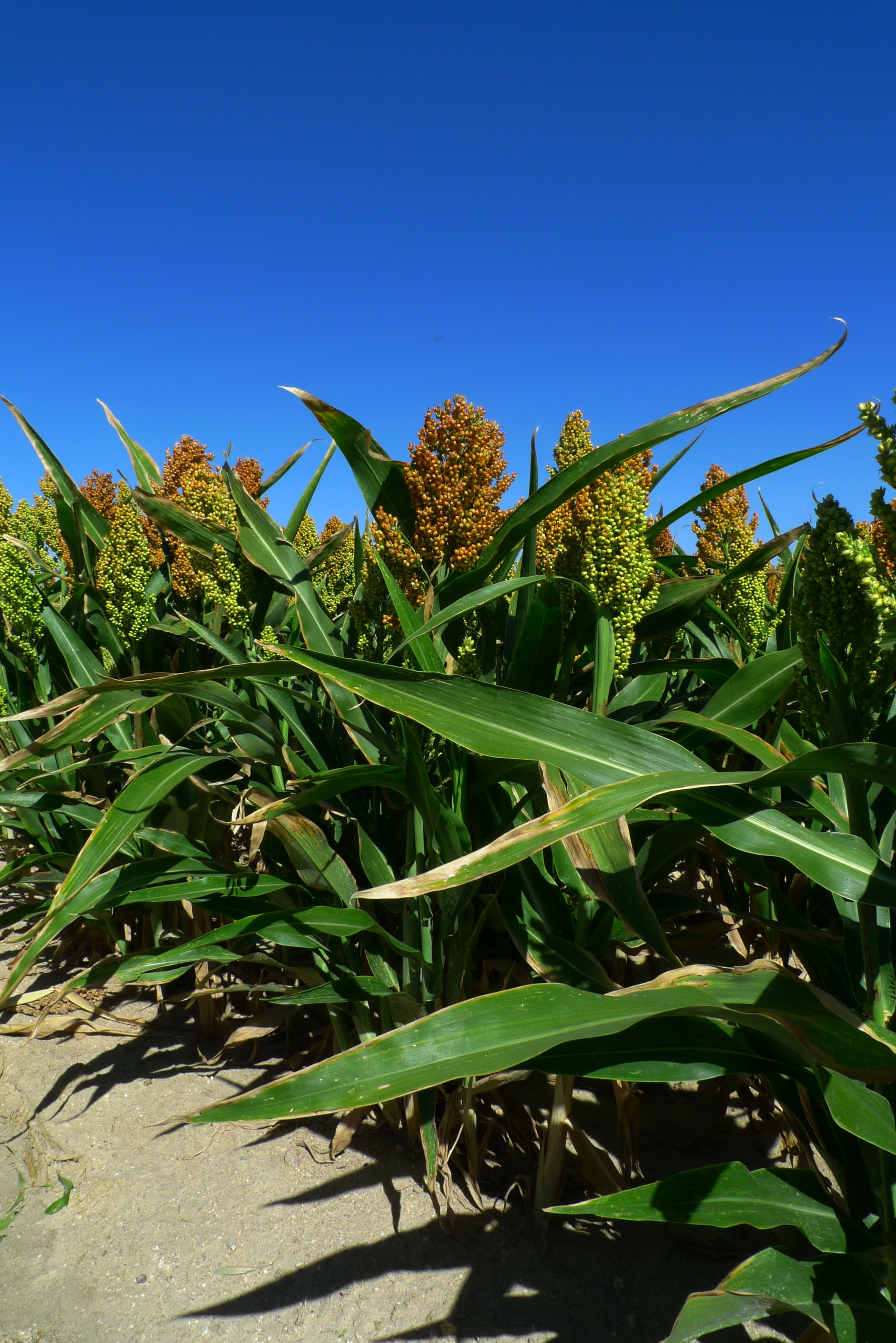 Sorghum in the Adaja irrigation district, Ávila, Spain